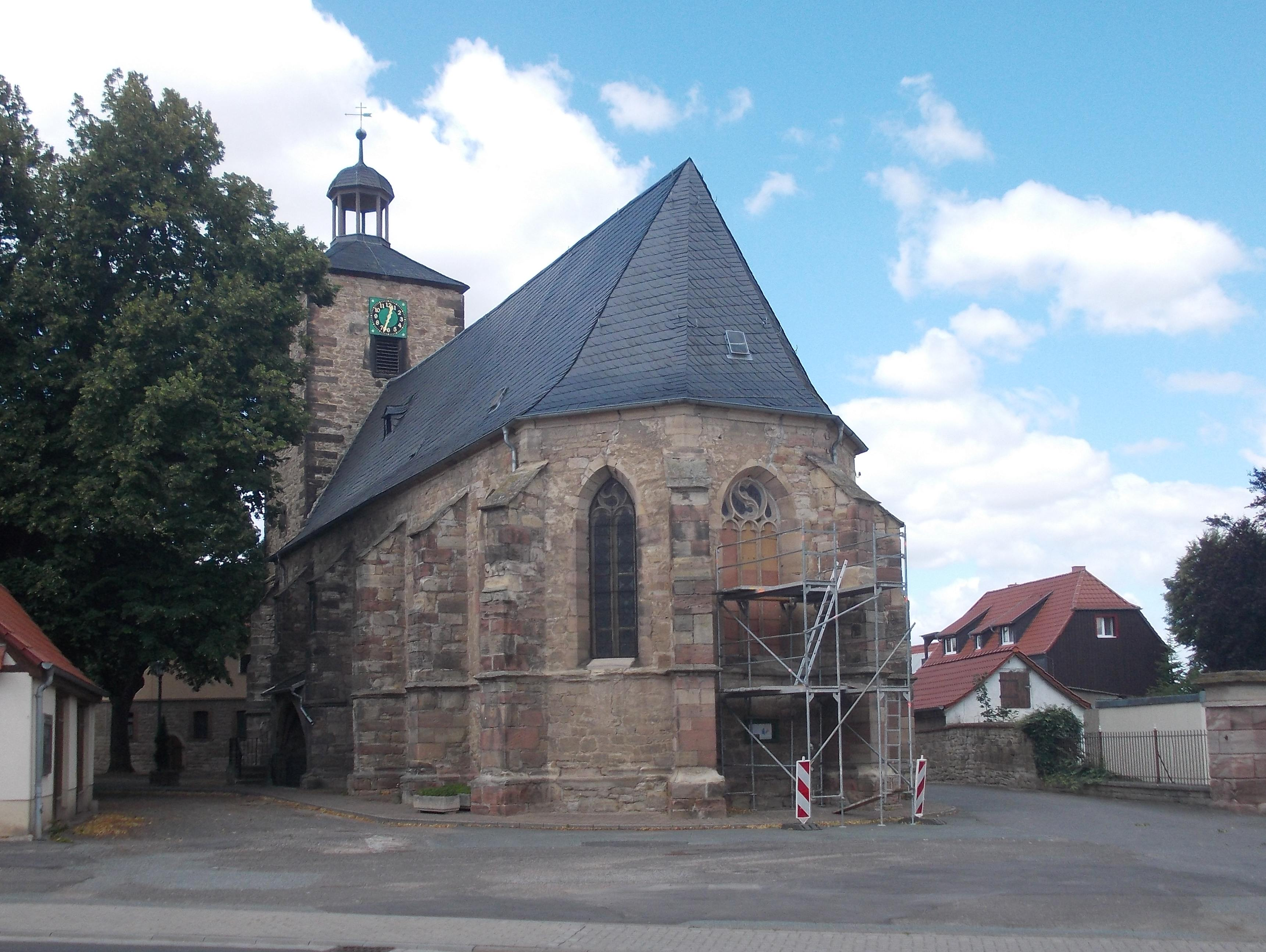 St. Mary Magdalene Church in Wohlmirstedt (Kaiserpfalz, district: Burgenlandkreis, Saxony-Anhalt)